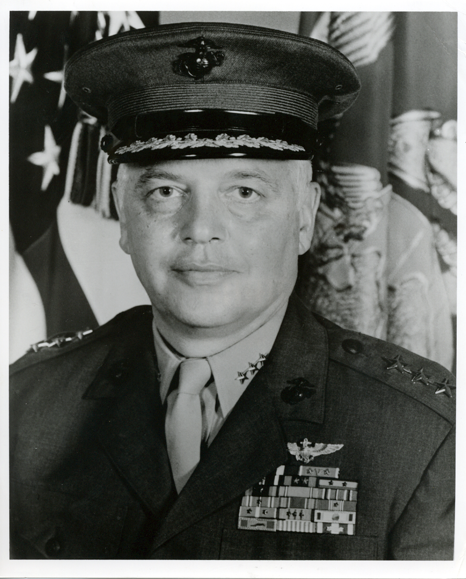 LtGen George C. Axtell, USMC; Navy Cross recipient, Battle of Okinawa; World War II flying ace